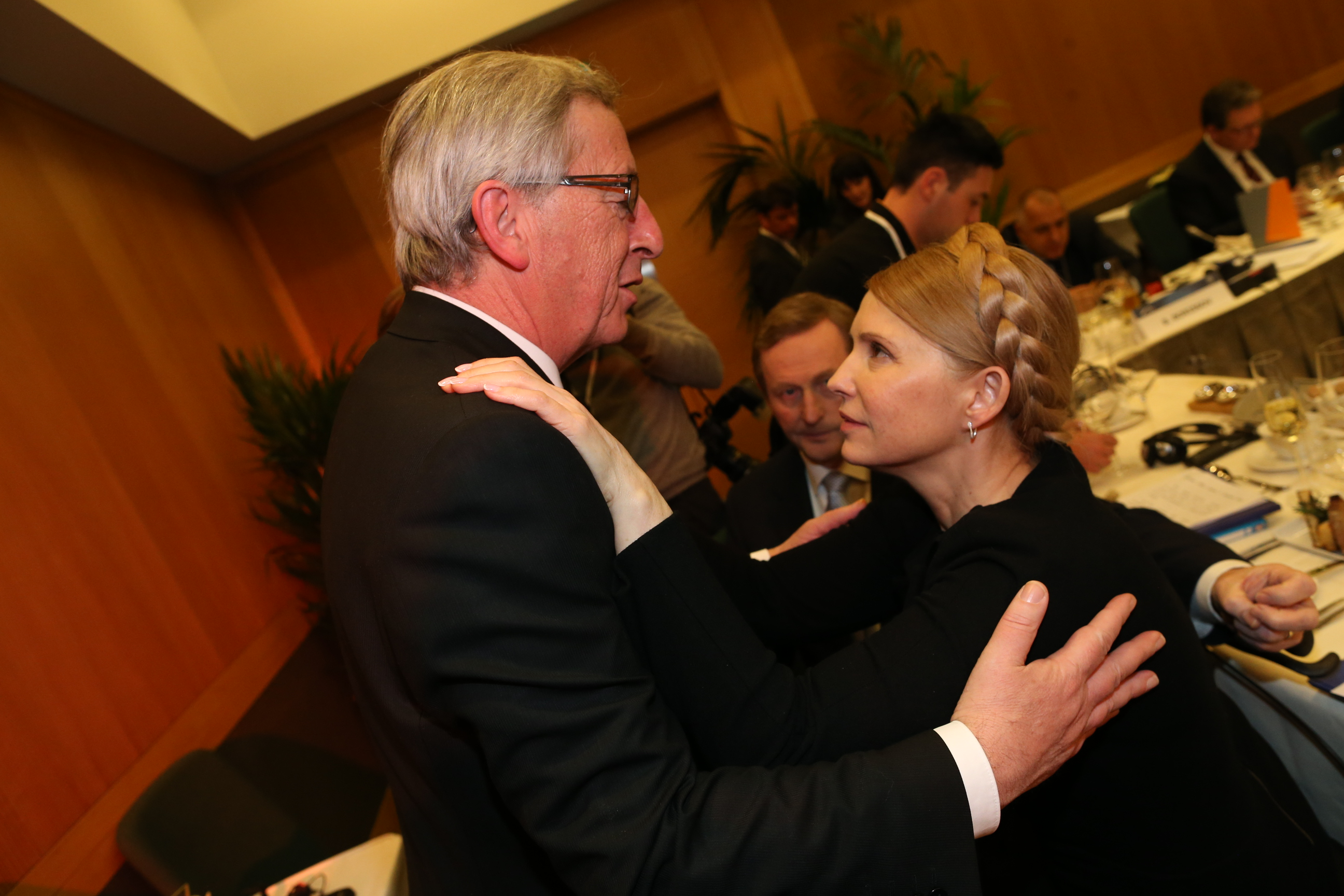 EPP Dublin Congress, 2014